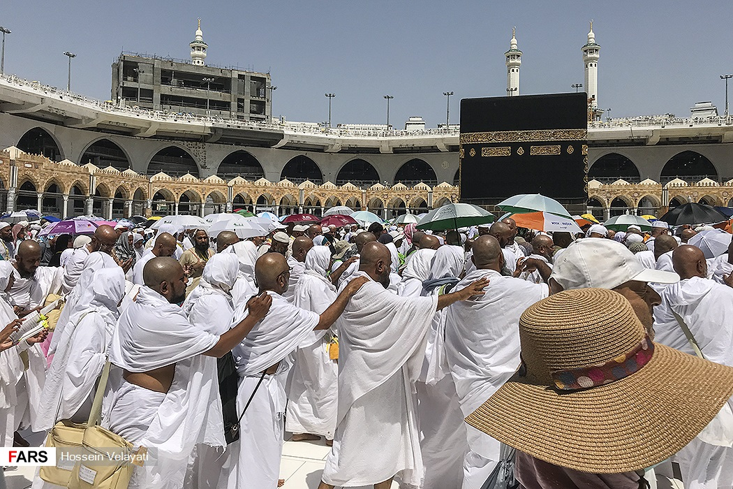 Hajj pilgrims -August 2018